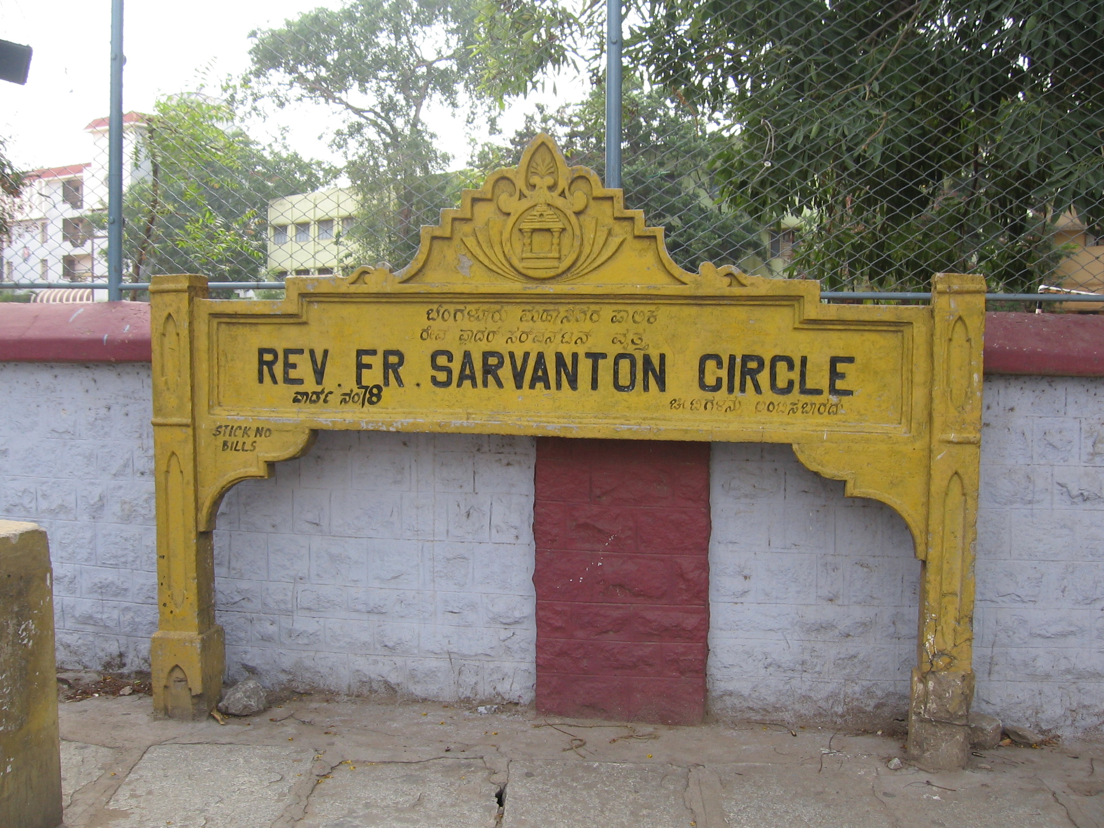 A street crossing sign board in Bangalore (India) in rememberance of Father Jean-Baptiste Servanton MEP (... with a spelling mistake!)